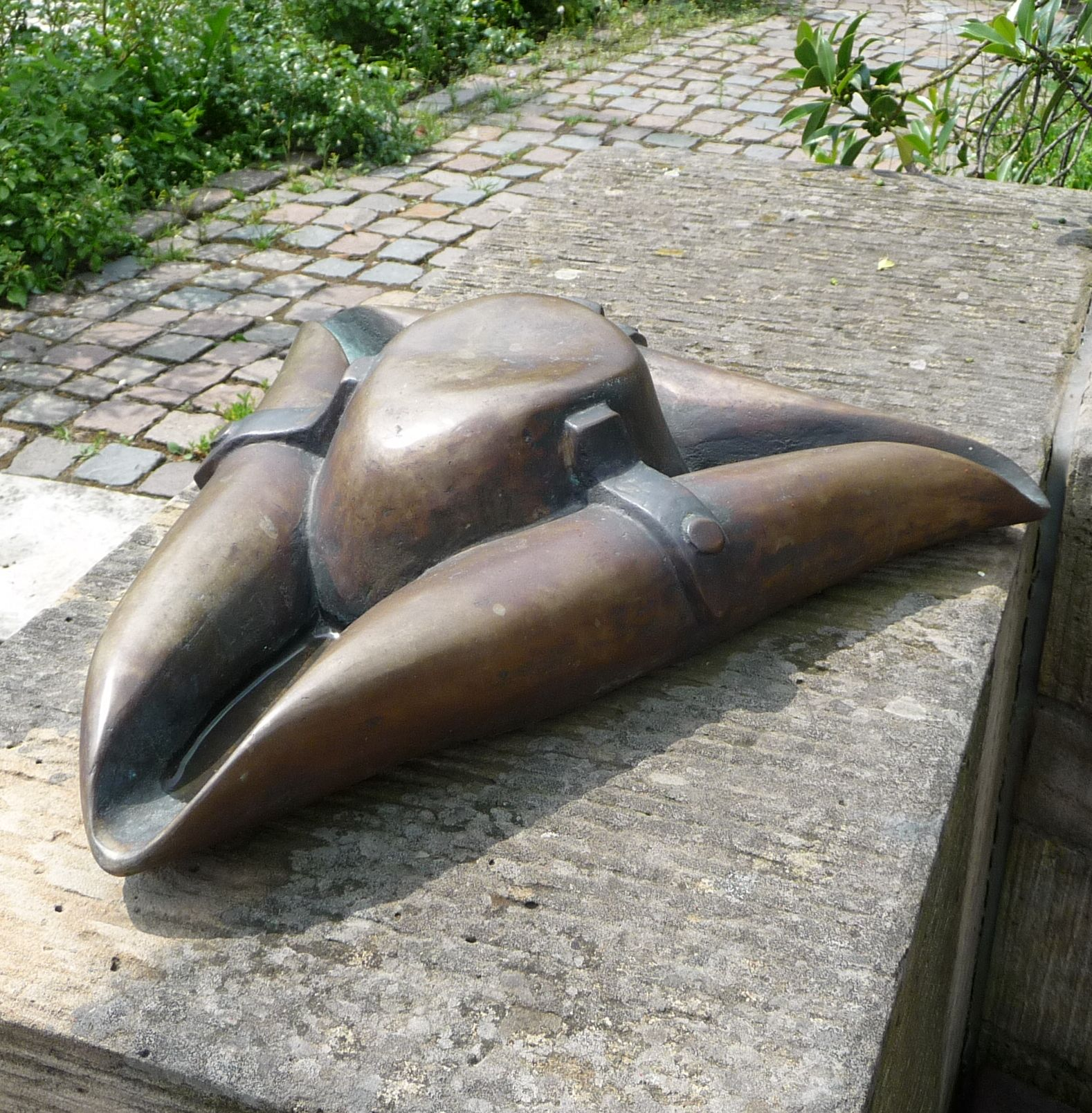 Brauchtumsbrunnen Deidesheim